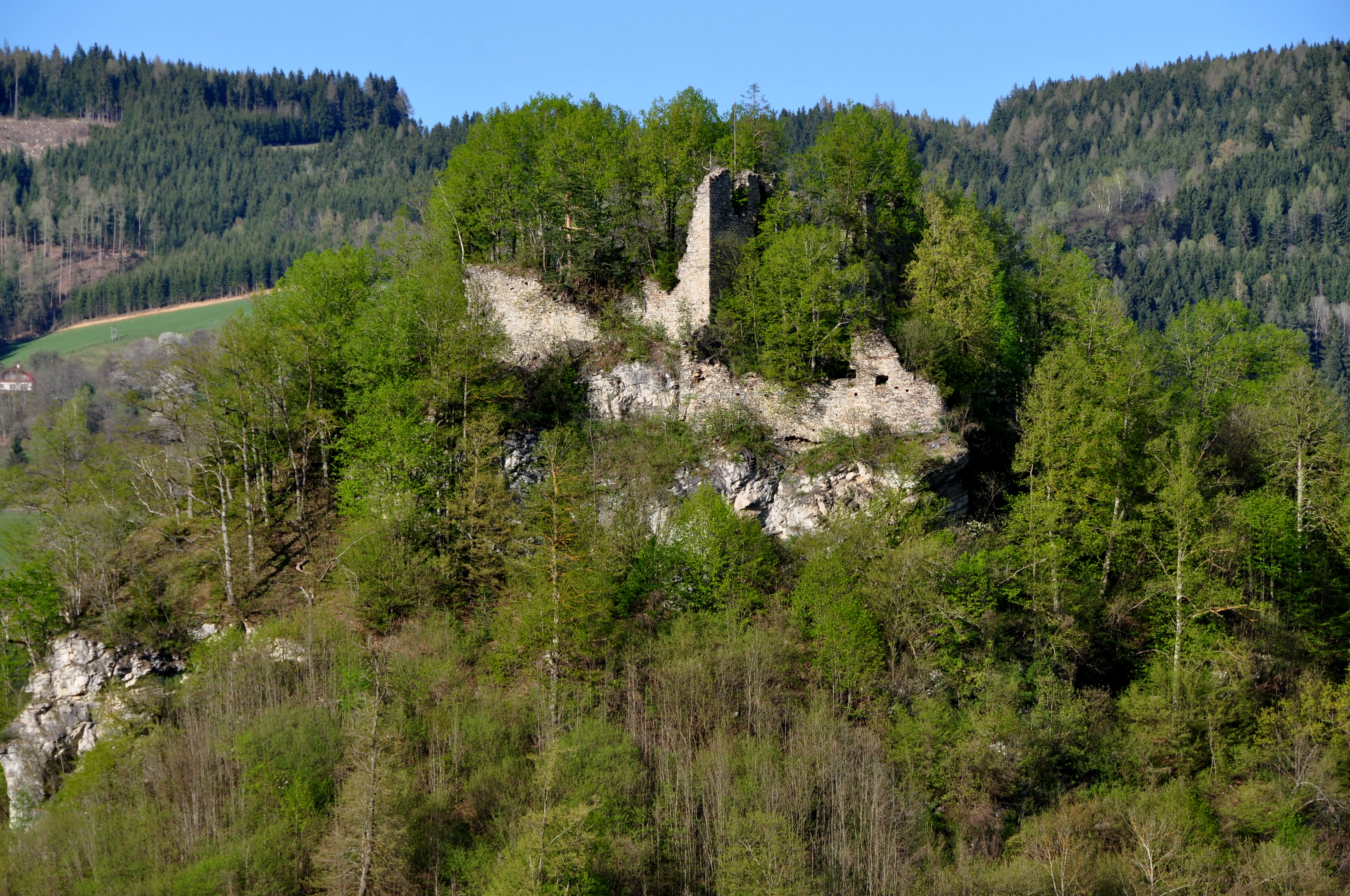 Castle ruin Mittertrixen at Mittertrixen, municipality Voelkermarkt, district Voelkermarkt, Carinthia, Austria